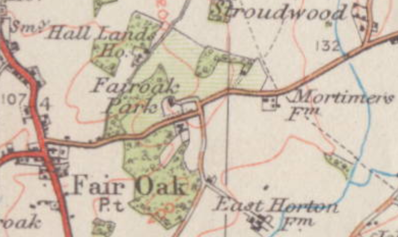 Ordnance Survey map of 1919 (published 1935) showing location of Fair Oak Park house in relation to the village of Fair Oak, Hampshire